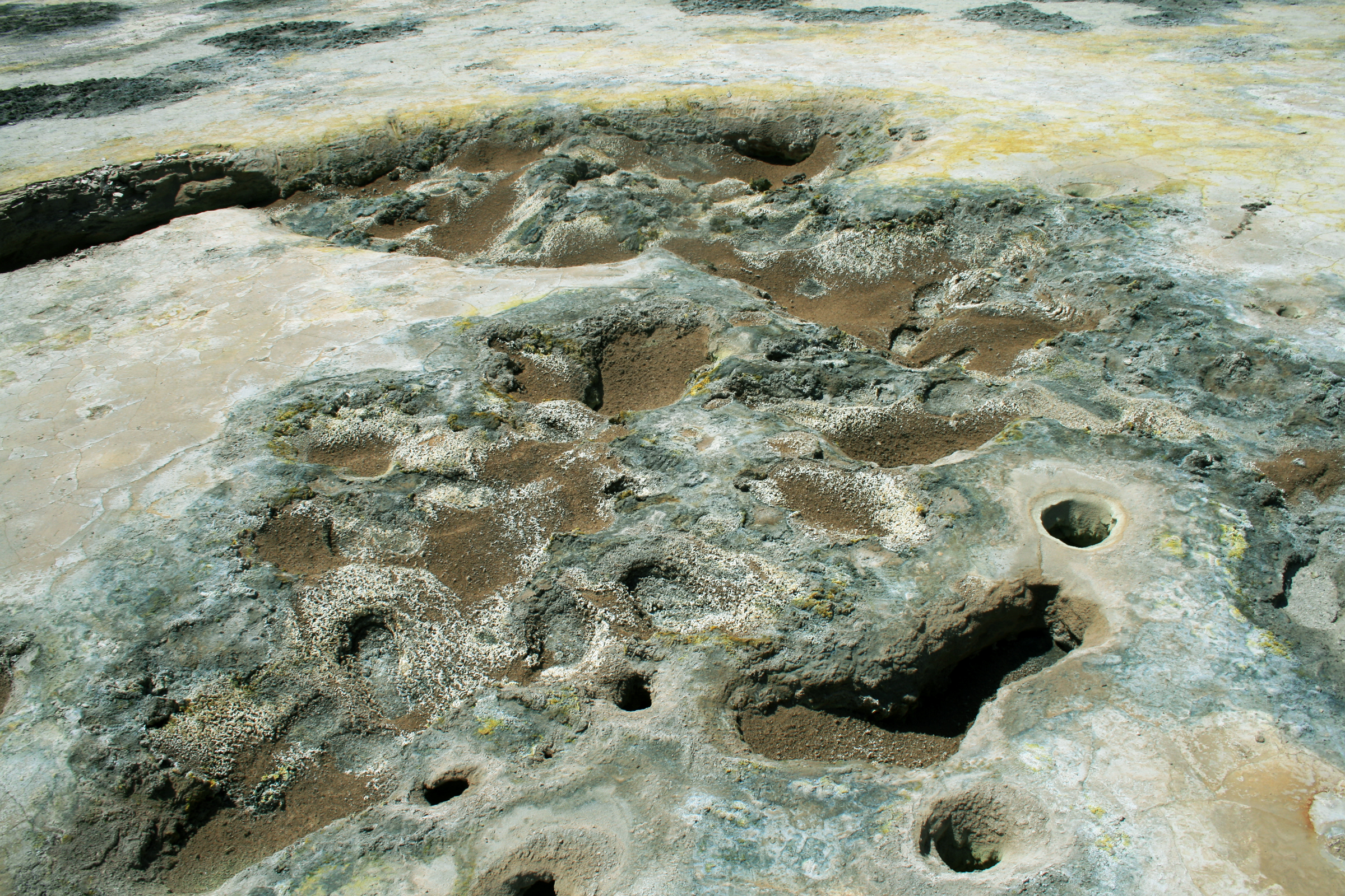 Mofette in crater of vulcano on Nisyros island (Greece)